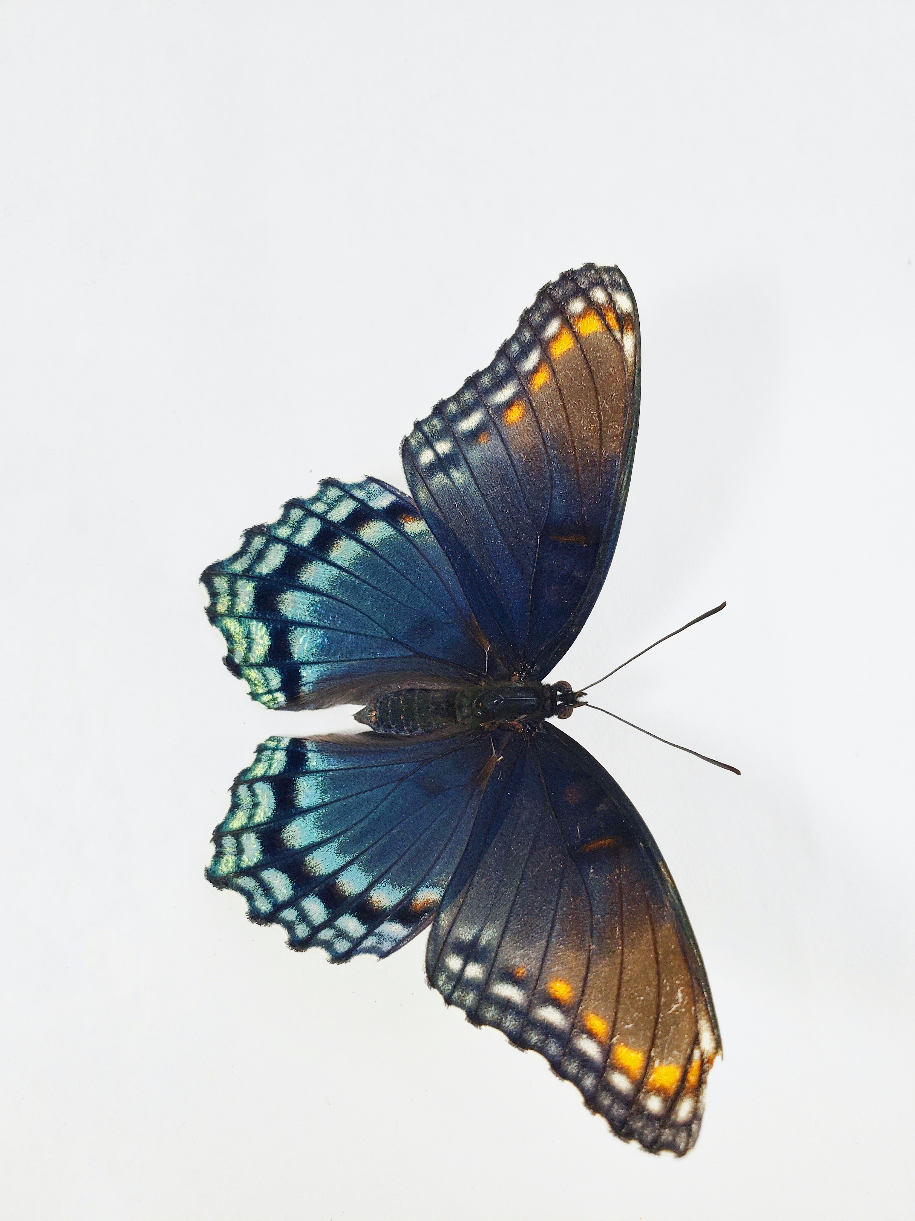 Red Spotted Purple (Limenitis arthemis) dorsal view